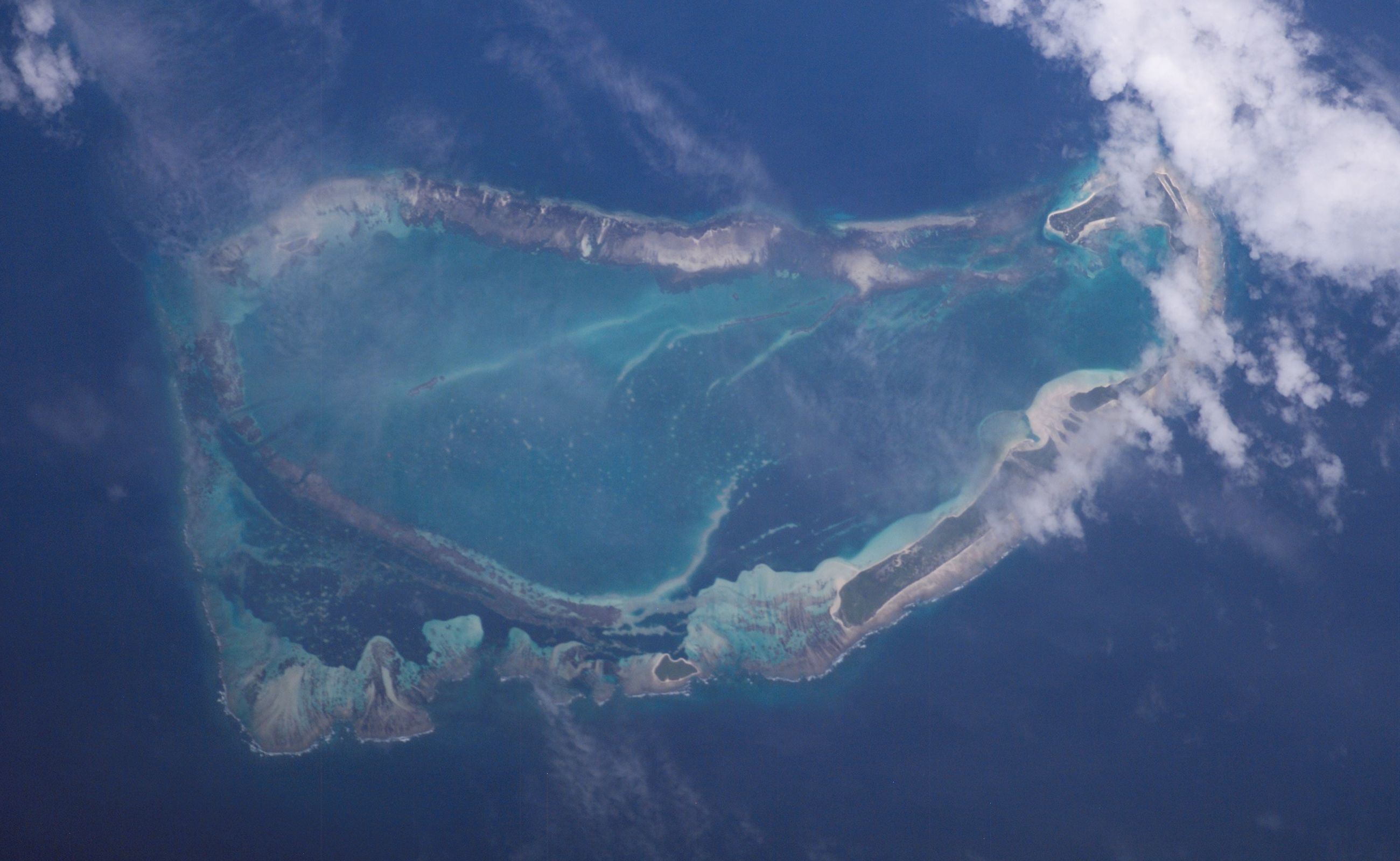 NASA astronaut image of Farquhar Atoll (Seychelles) in the Indian Ocean